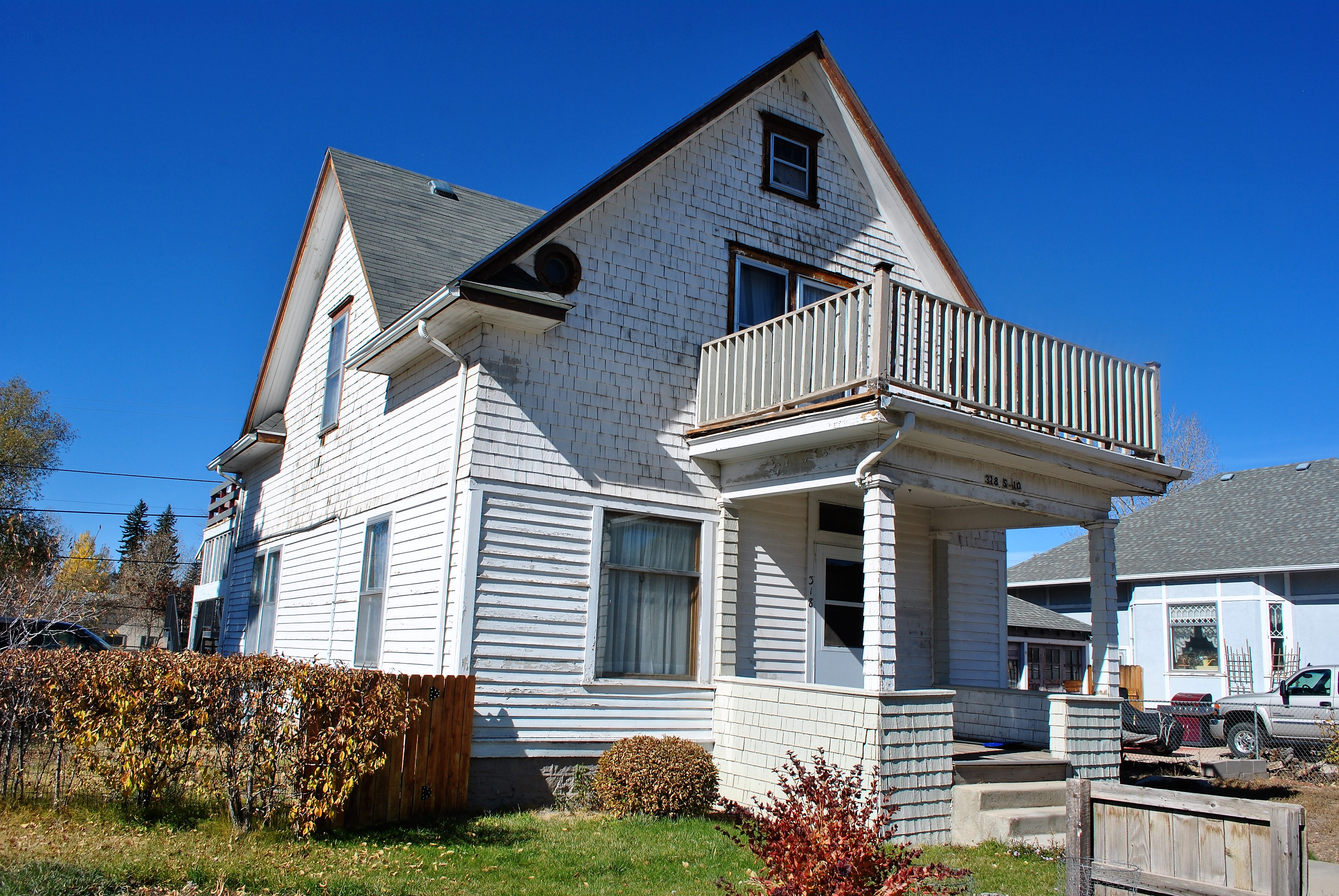 Image originally published in Queer Places: Retracing the Steps of LGBTQ people around the World Authored by Elisa Rolle